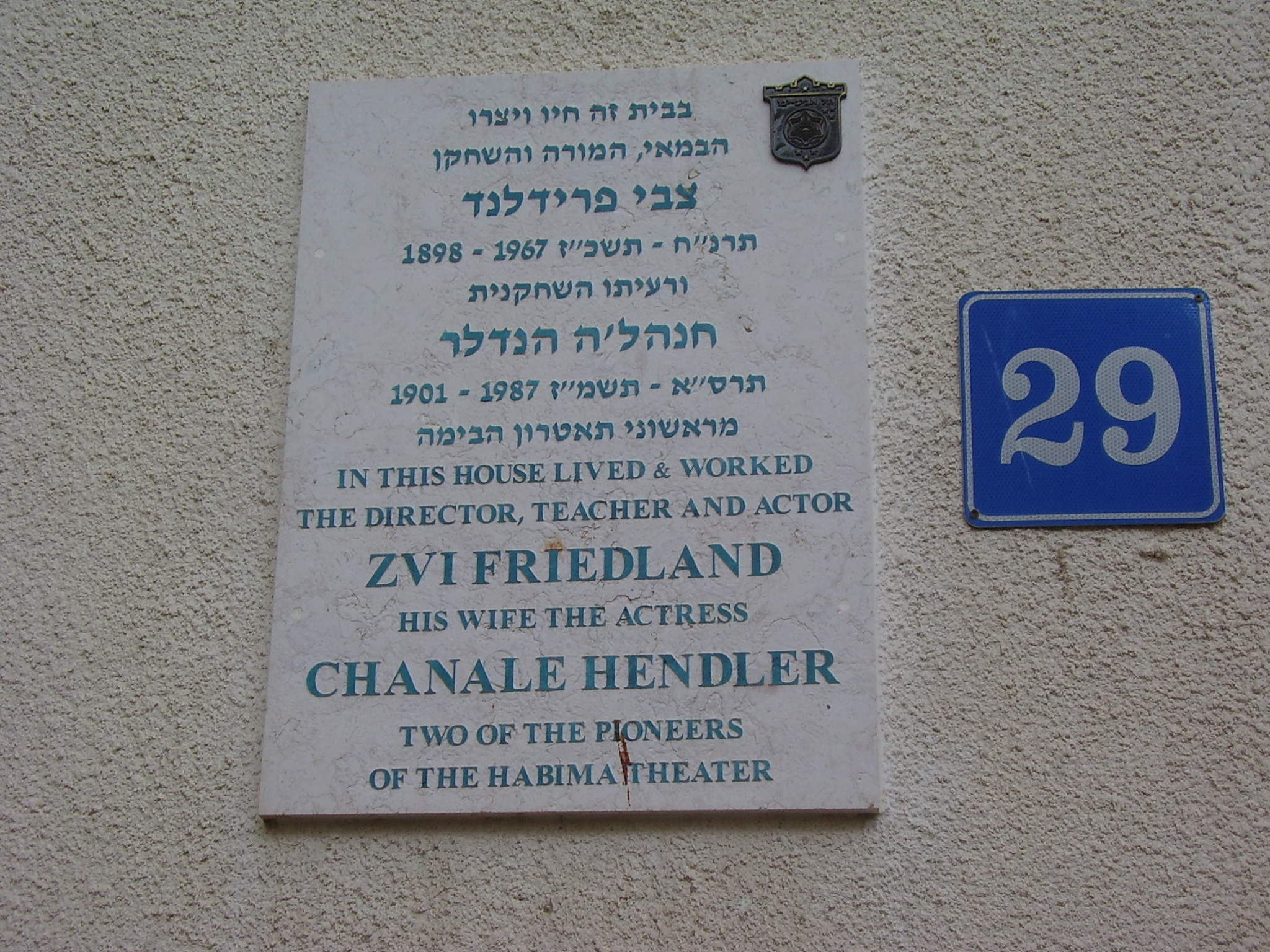 memorial plaque on the house of the actors zvi friedland and his wife chanale hendler לוחית זיכרון על ביתם של השחקנים צבי פרידלנד ואשתו חנהל'ה הנדלר ברחוב פרוג 29 בתל אביב